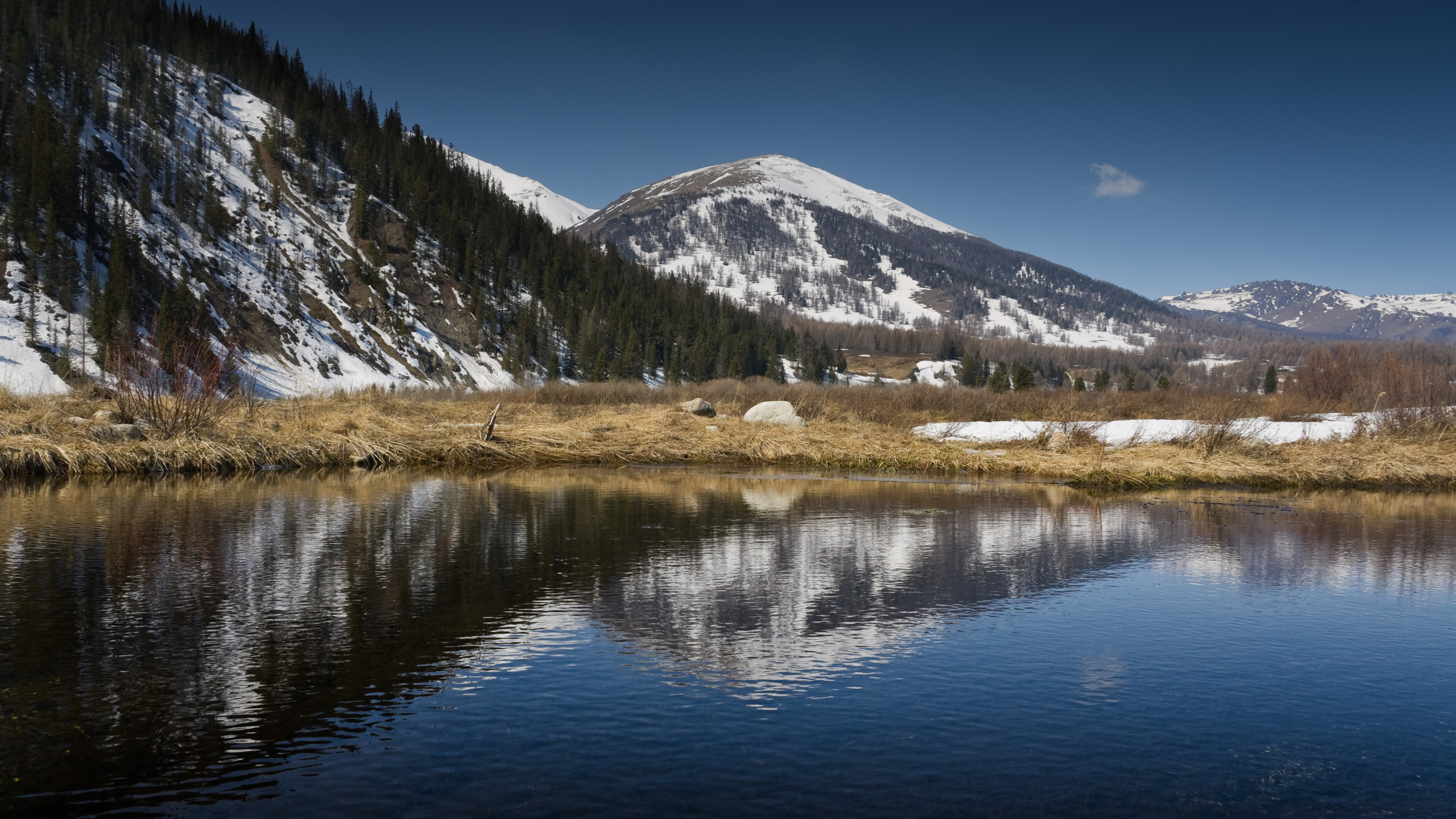 Altay mountains, Kazakhstan